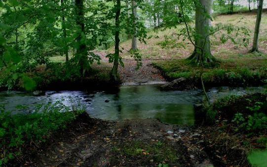 Ford (crossing)